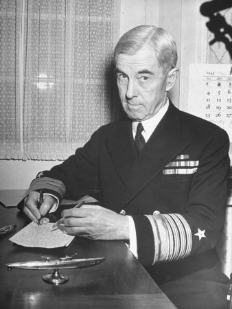 Thomas Charles Hart (June 12, 1877 – July 4, 1971), admiral of the United States Navy. Following his retirement from the Navy, he served briefly as a United States Senator from Connecticut.